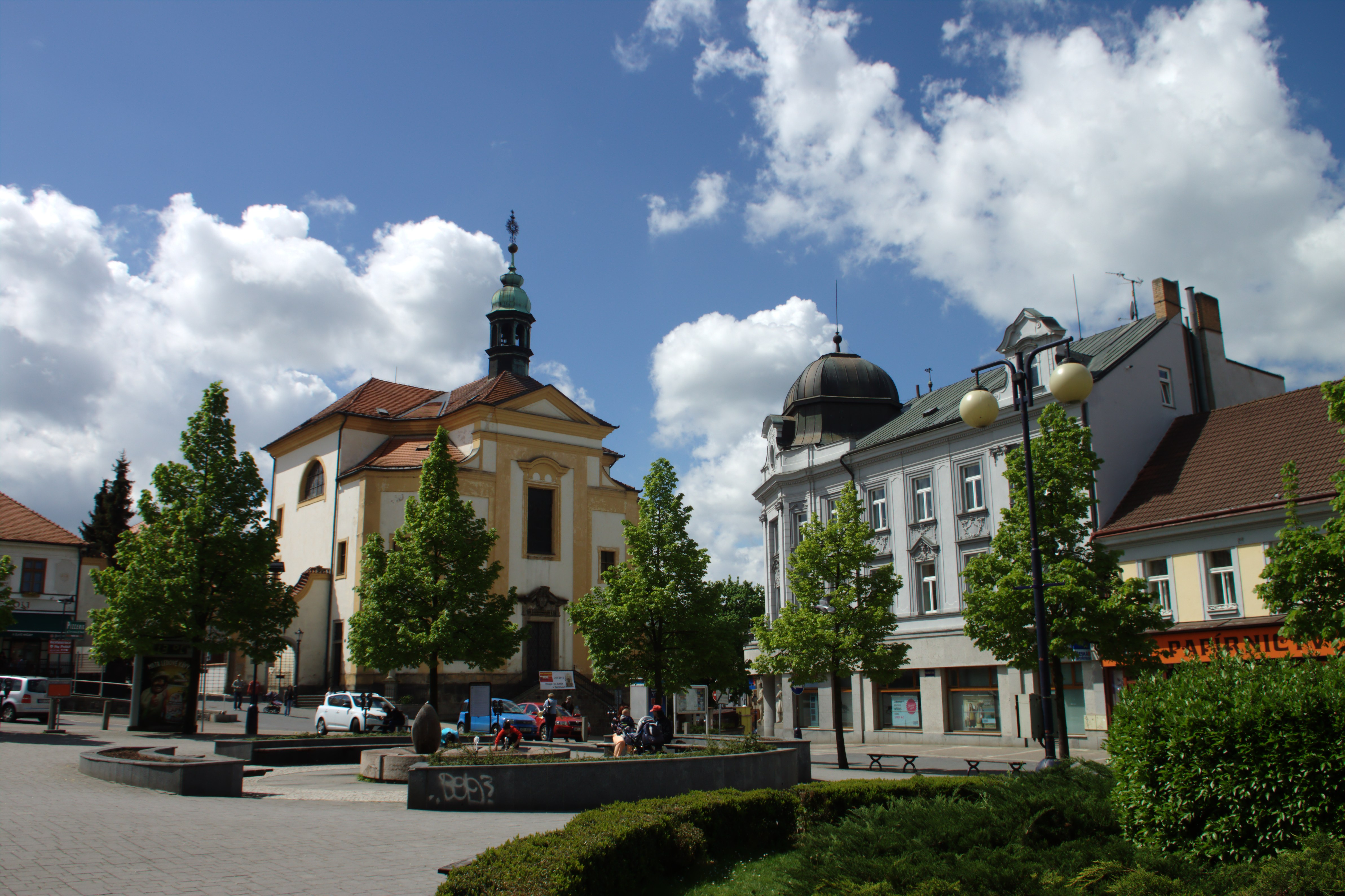 Masarykovo náměstí Square in Benešov, Central Bohemian Region, CZ